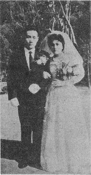 Chun Doo-hwan and Lee Sun-ja in 1958, Daegu Stadium